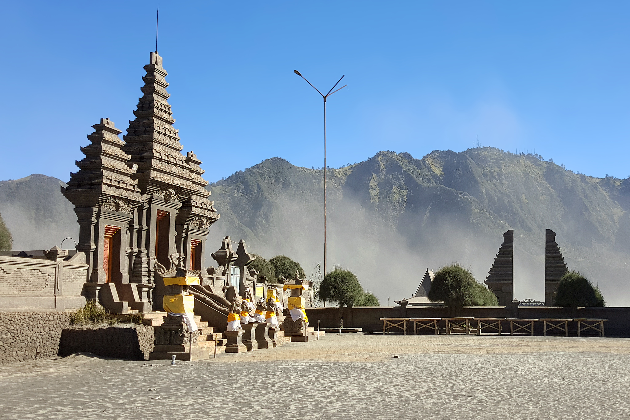 Pura Luhur Poten, an Hindu temple on the Bromo caldera